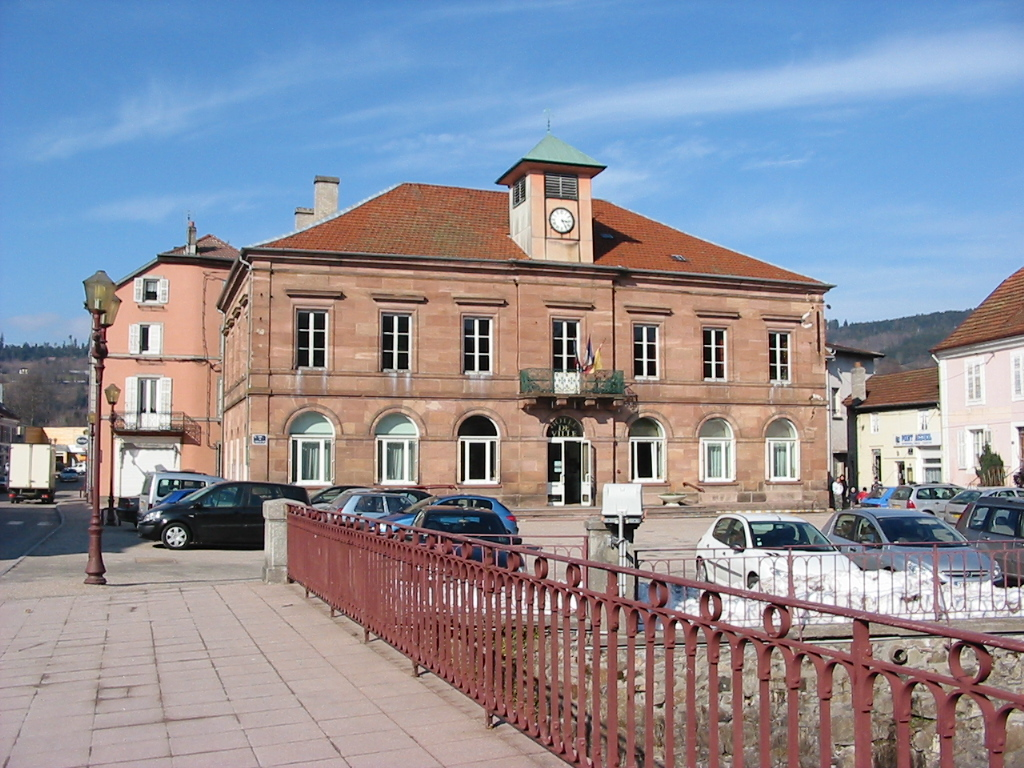 City hall made of pink stone in Fraize (France). Photographie personnelle, prise le 15 mars 2006 / Personnal photo, taken on 15 March 2006 Copyright © Christian Amet